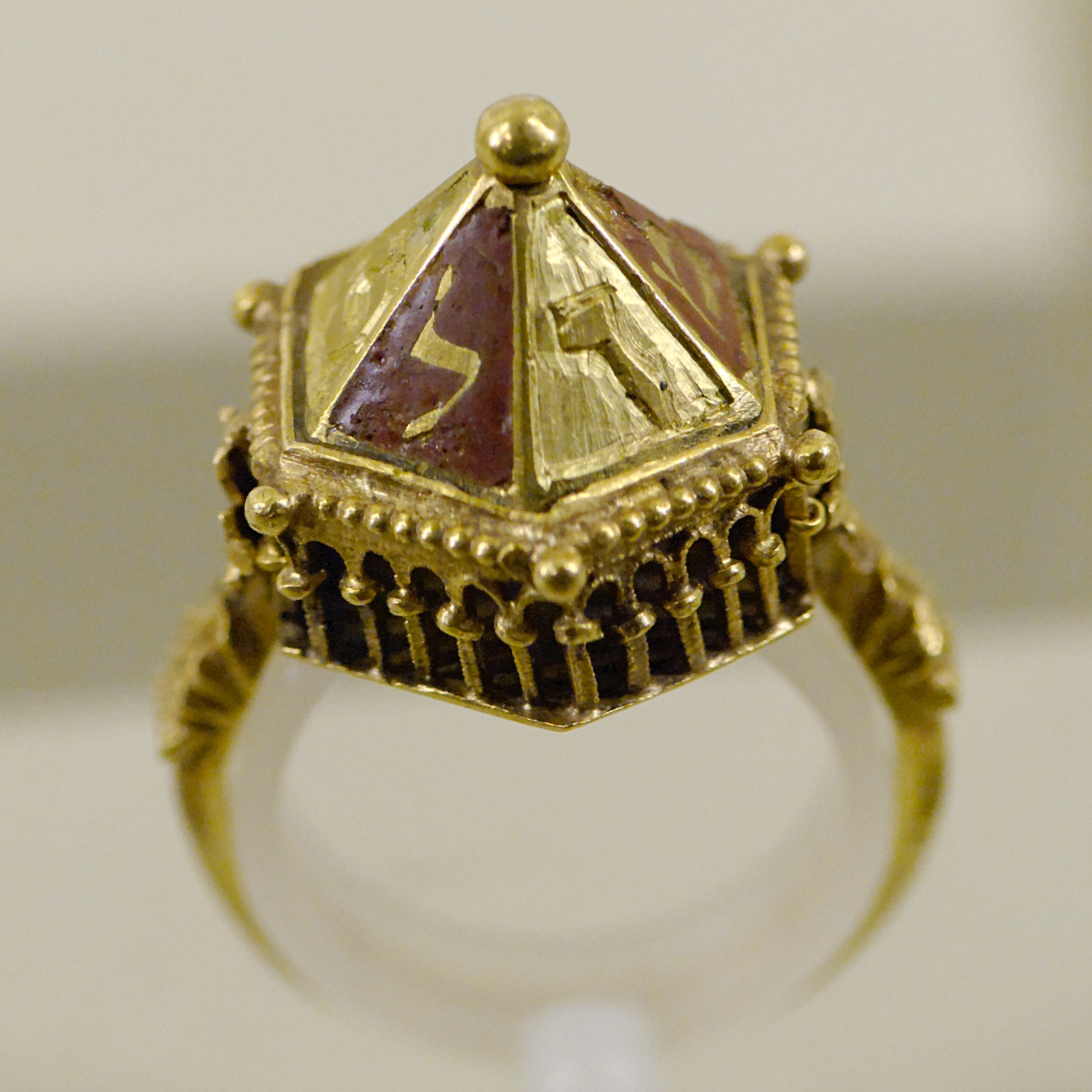 Jewish wedding ring. Chased and enameled gold and filigrees, early 14th century, found at Colmar (Alsace, France) in 1863.